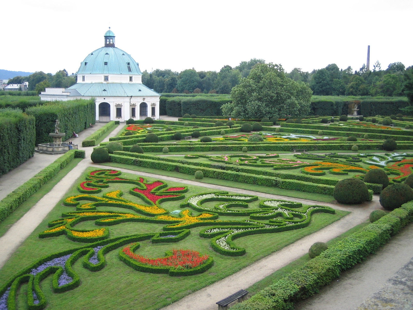 Flower Garden in Kroměříž